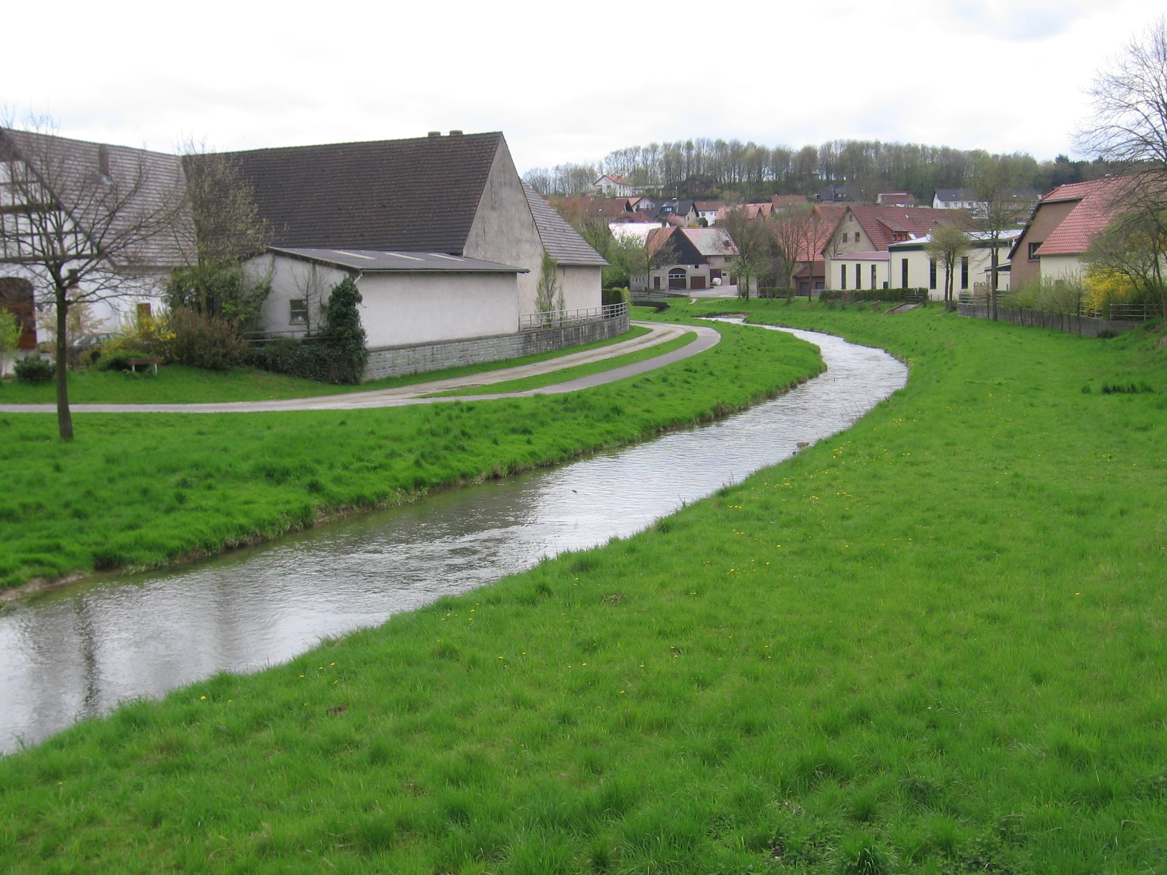 The German river Altenau in the village Etteln in Northrhine-Westphalia.